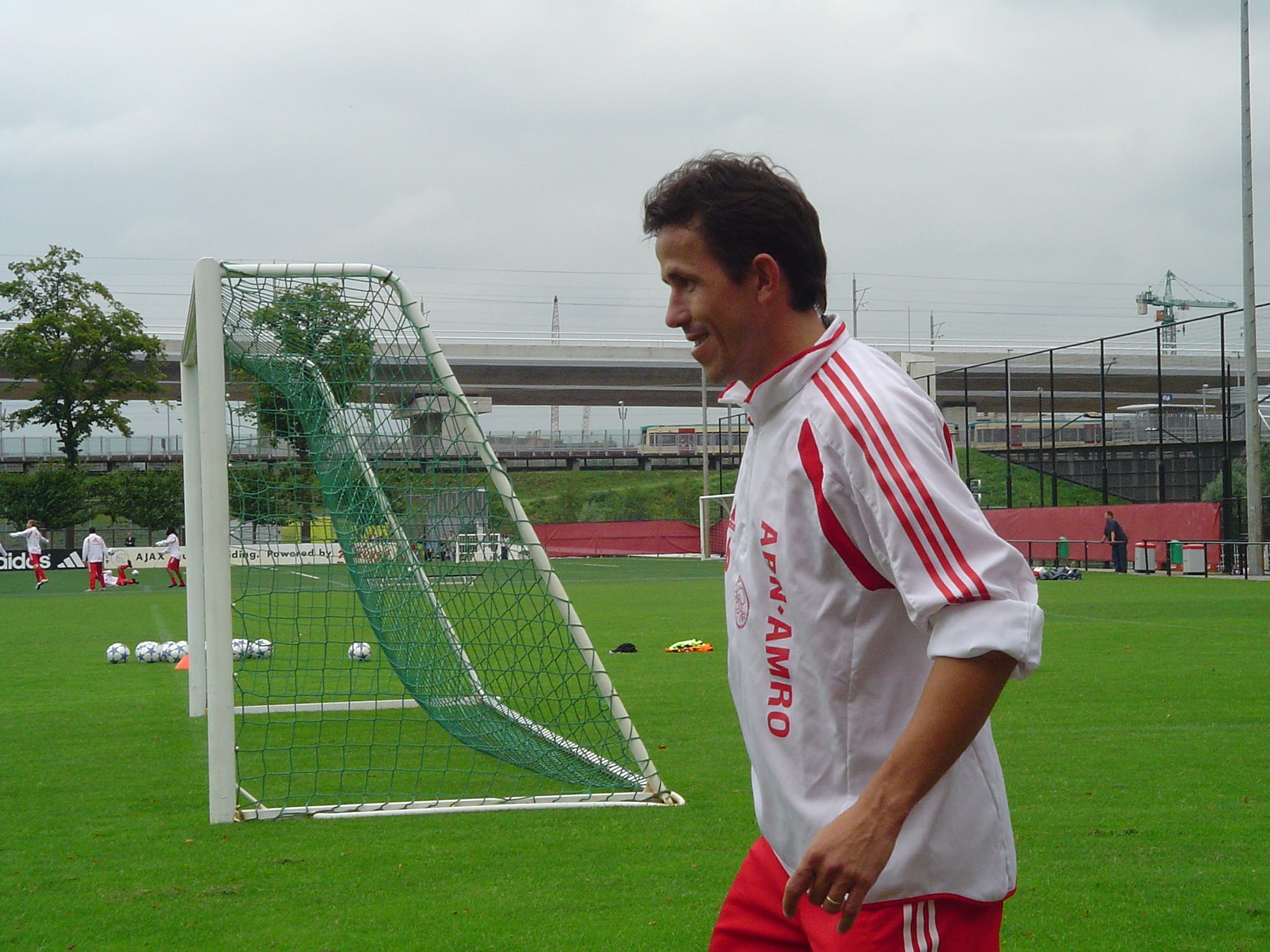 Tomáš Galásek during the training of Ajax Amsterdam in 2004